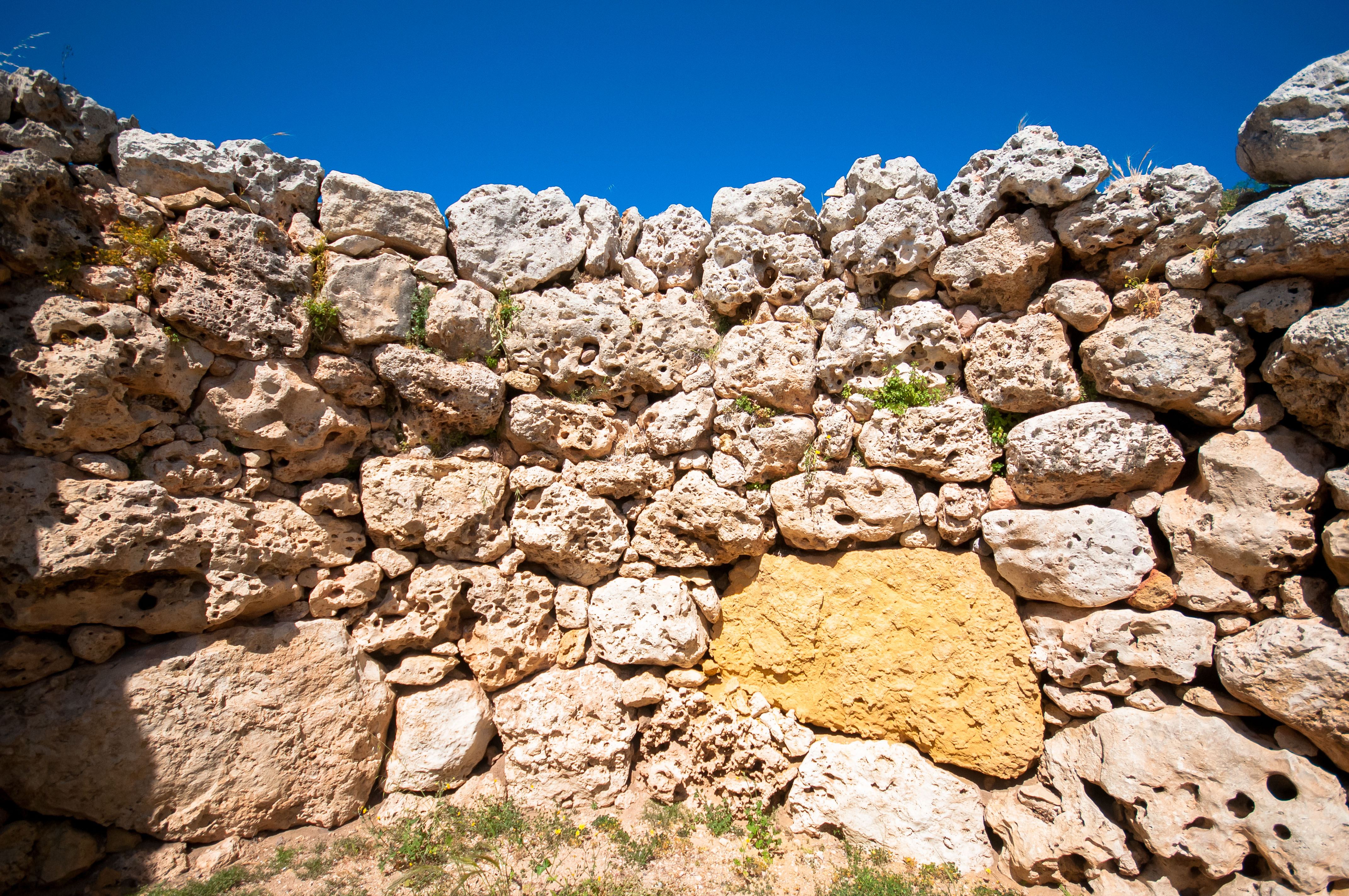 Ġgantija Megalithic Temples complex on Gozo in Malta.